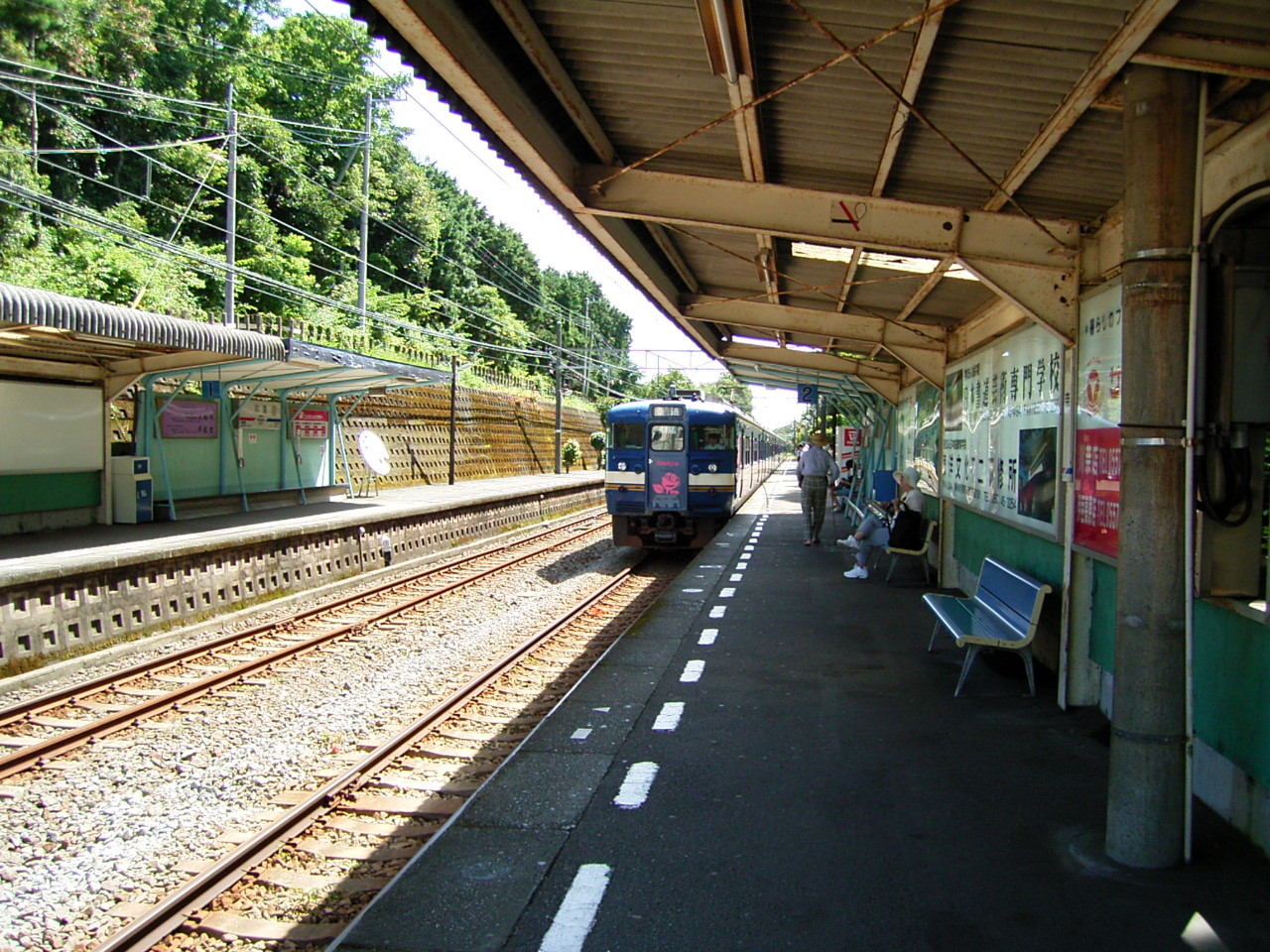 Izukyuko line Kawana station Shizuoka Japan